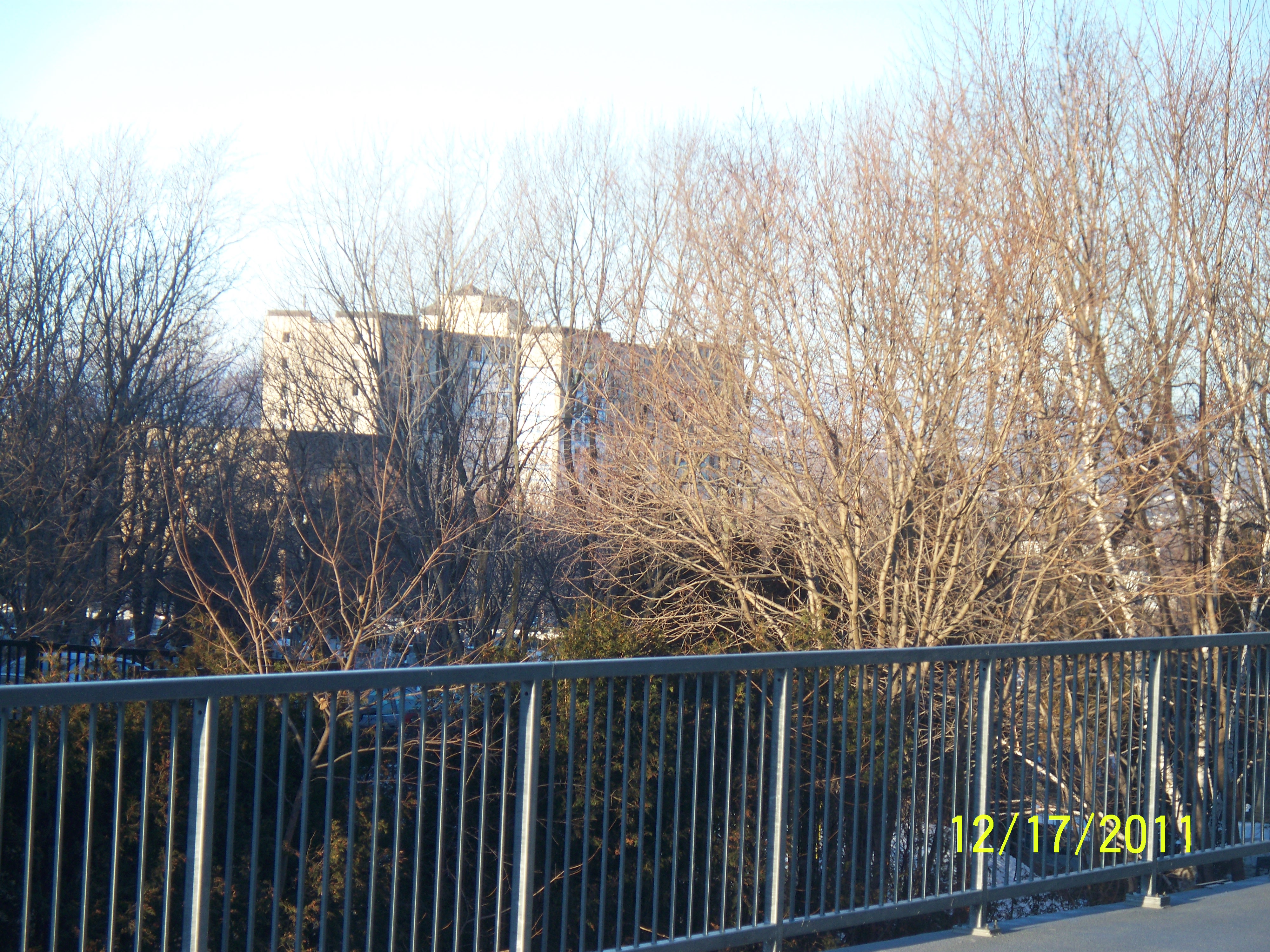 Apartment block close to the University Laval in Quebec City.